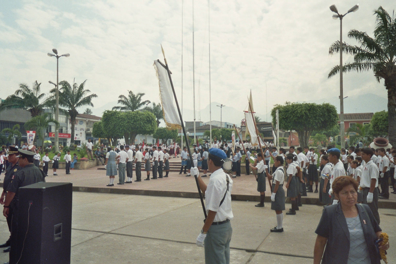 Town square in Tarapoto, Peru